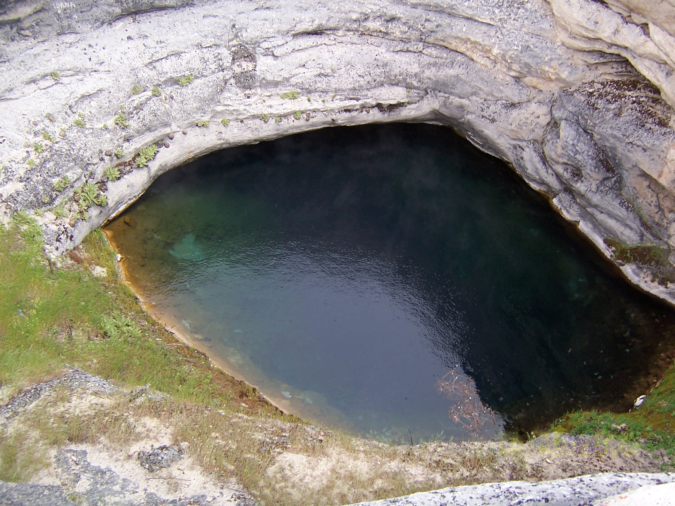 Diana's Punchbowl - 30' drop